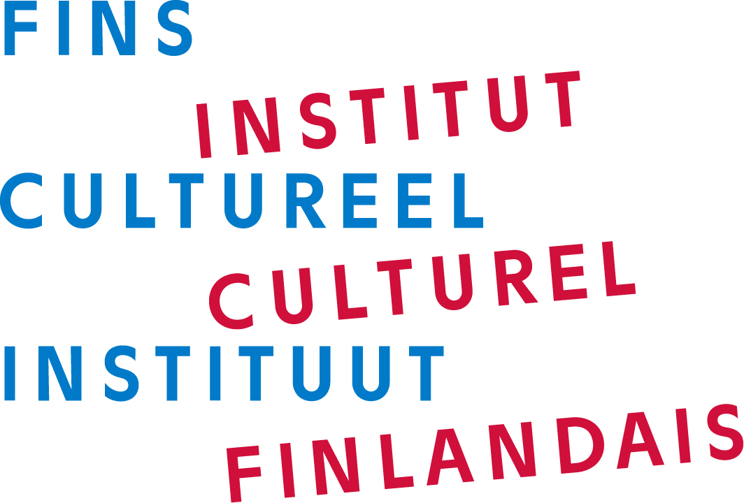 The logo of the Finnish Cultural Institute for the Benelux by Kokoro&Moi.